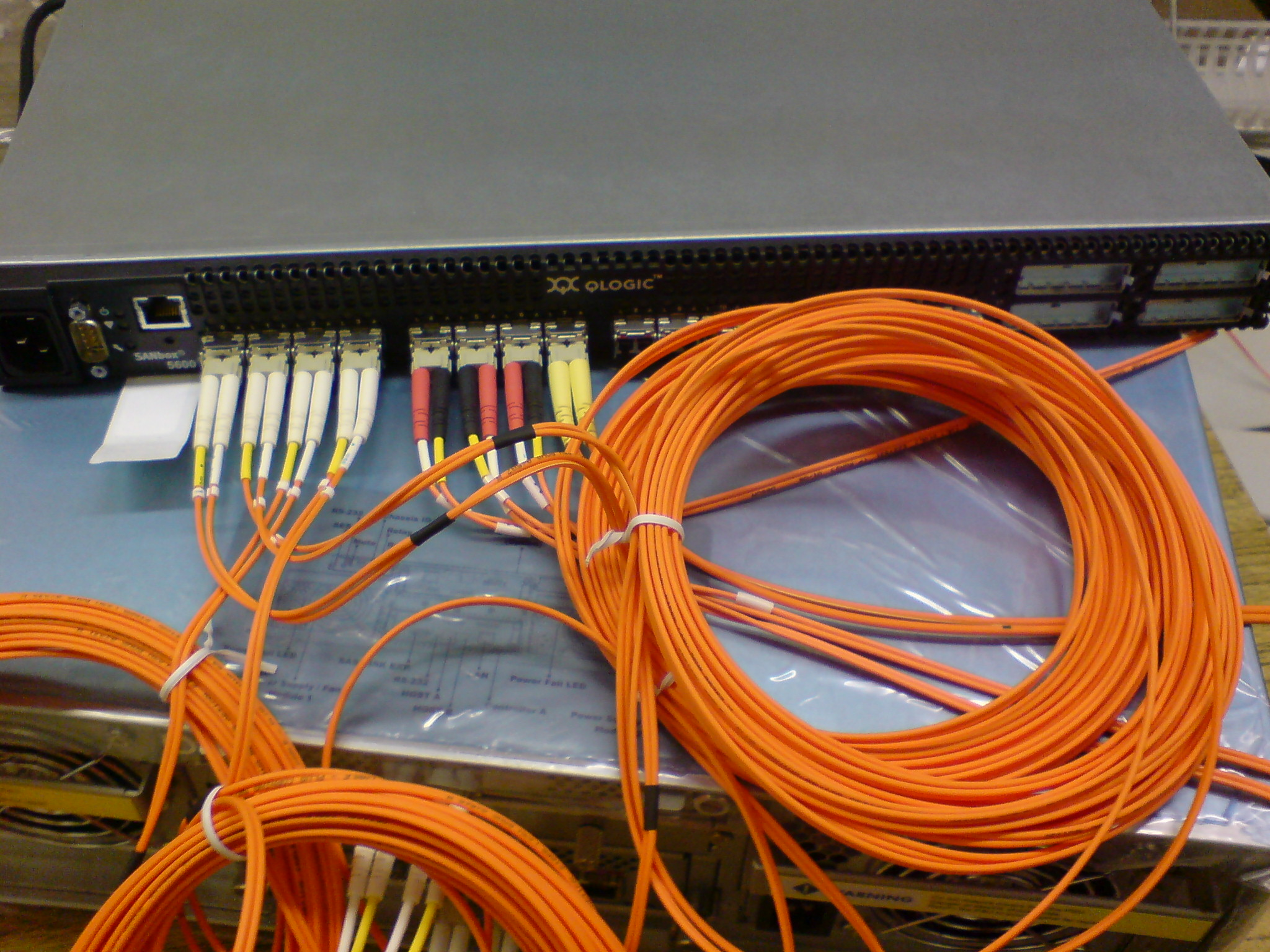 Qlogic SANbox 5600 switch with optical LC connectors installed. Test lab of BiTech company (Moscow, Russia).